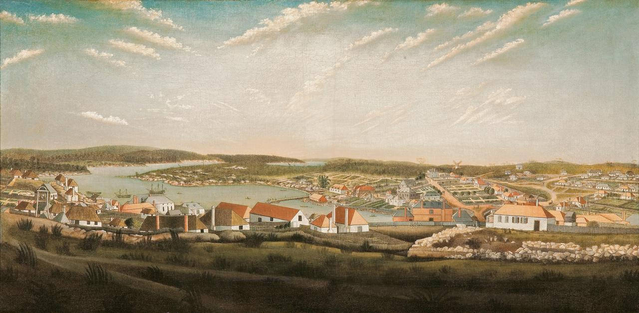 View of the Town of Sydney in the Colony of New South Wales, oil on canvas, 65 x 133 cm.